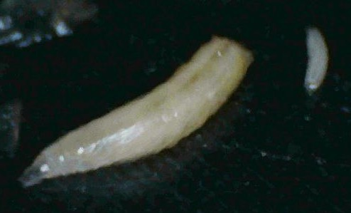 Maggots of Lucilia Sericata for Larval therapie in different states of growth